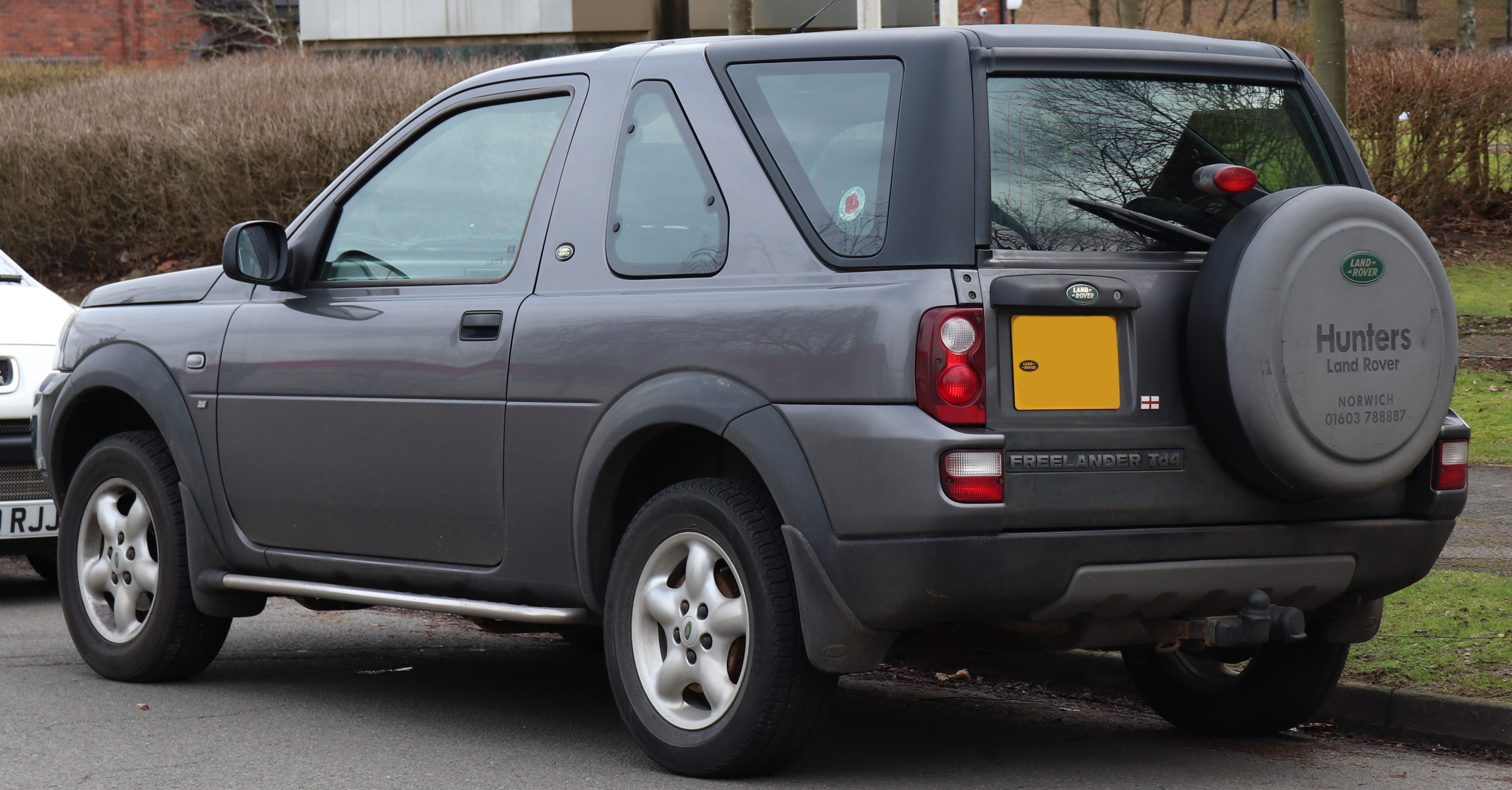 2007 Land Rover Freelander TD 2.0 facelift Rear Taken in Leamington Spa